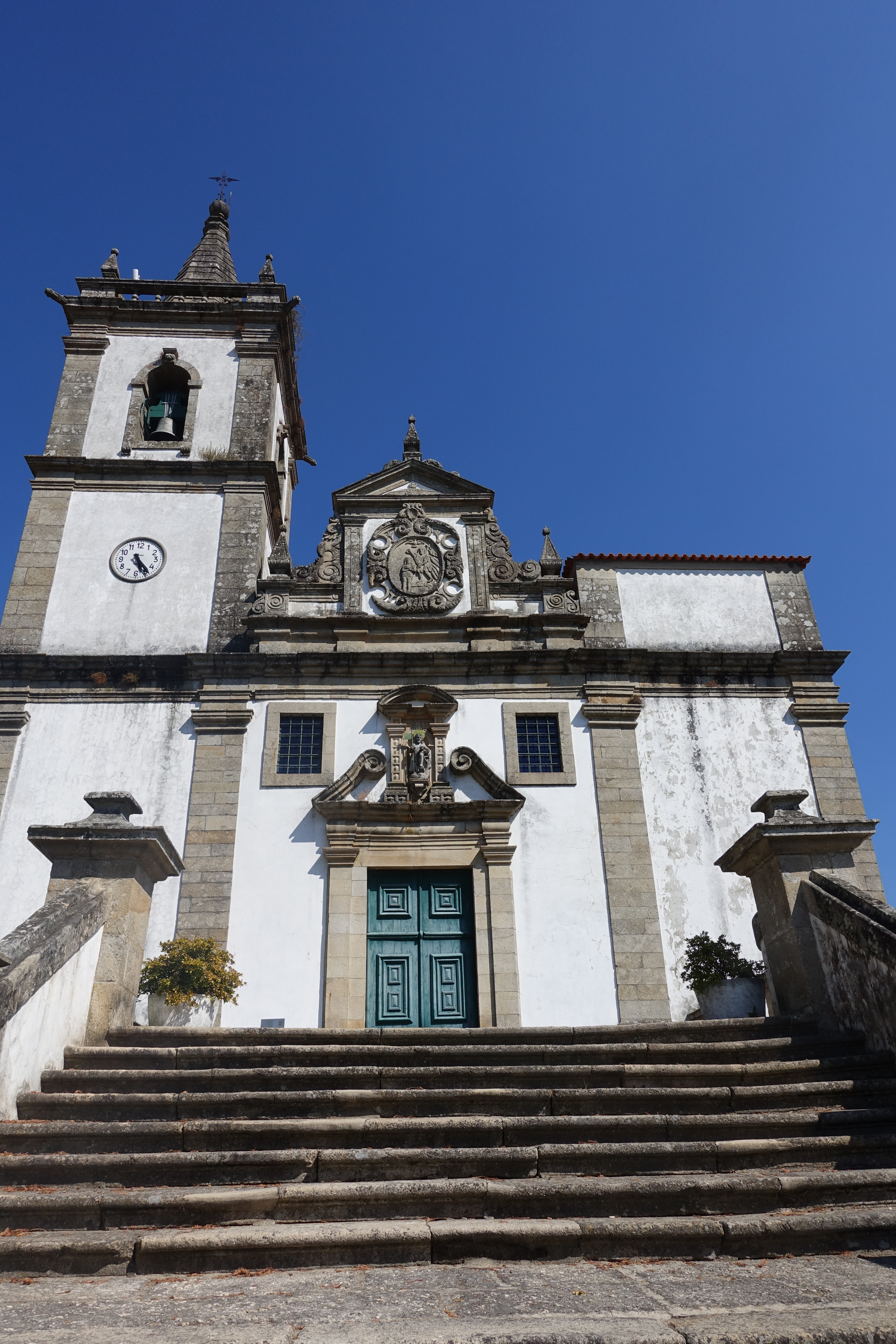 Igreja de Ponte da Barca, Portugal.